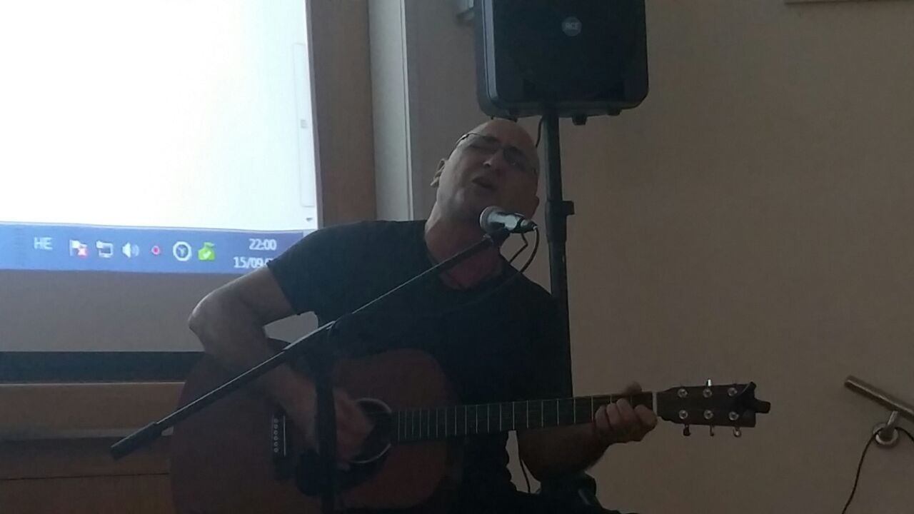 Avi Belleli sings songs by Eben Ezra in a Project Ben-Yehuda evening dedicated to Hebrew Medieval writing. Tel Aviv University, 2016.